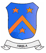 The Abela Coat of arms, ESLWEB, Self made.